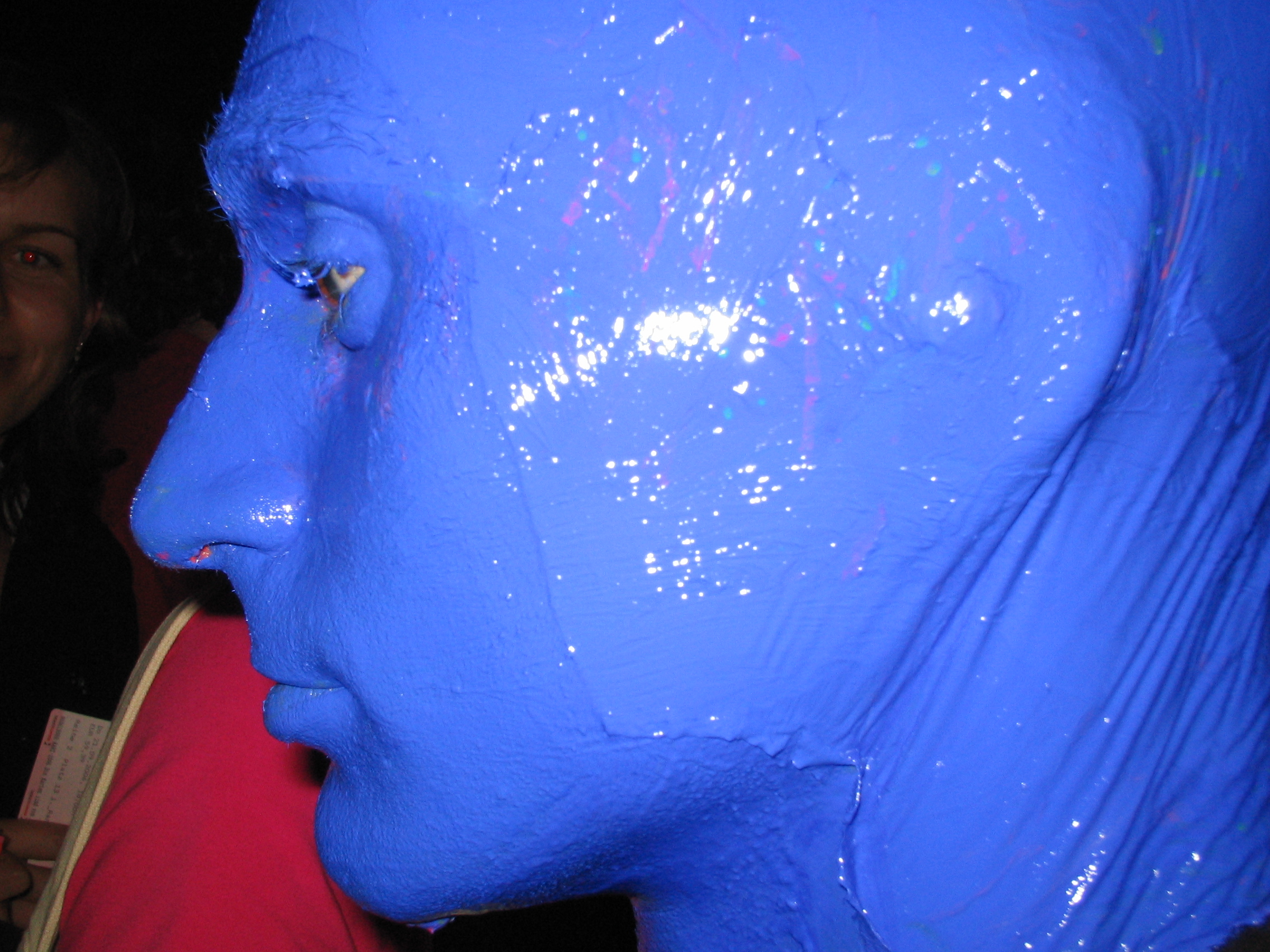 One of the Blue Men Group